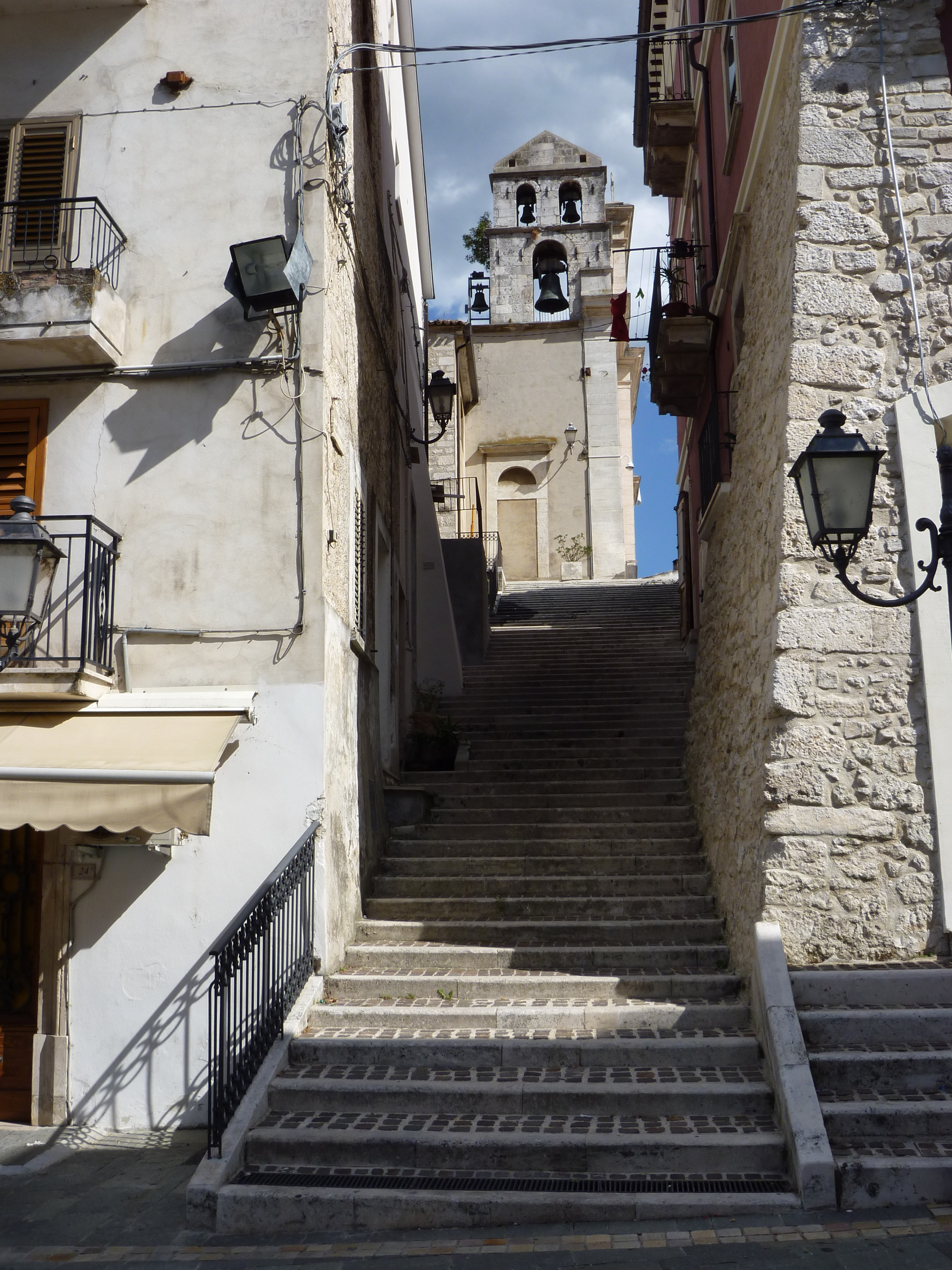 Church of San Remigio, Fara San Martino, province of Chieti, Abruzzo, Italy.